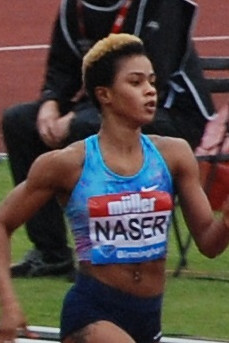 Salwa Eid Naser competing in the women's 400m at Muller Diamond League Birmingham Grand Prix